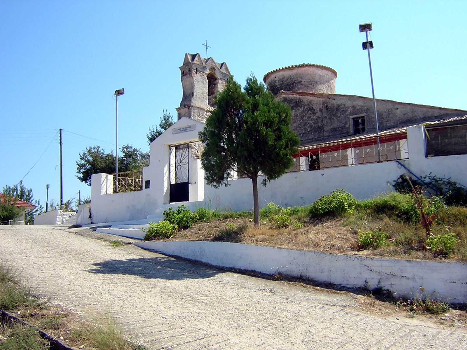 This is a photography of Natura 2000 protected area with ID GR2110004